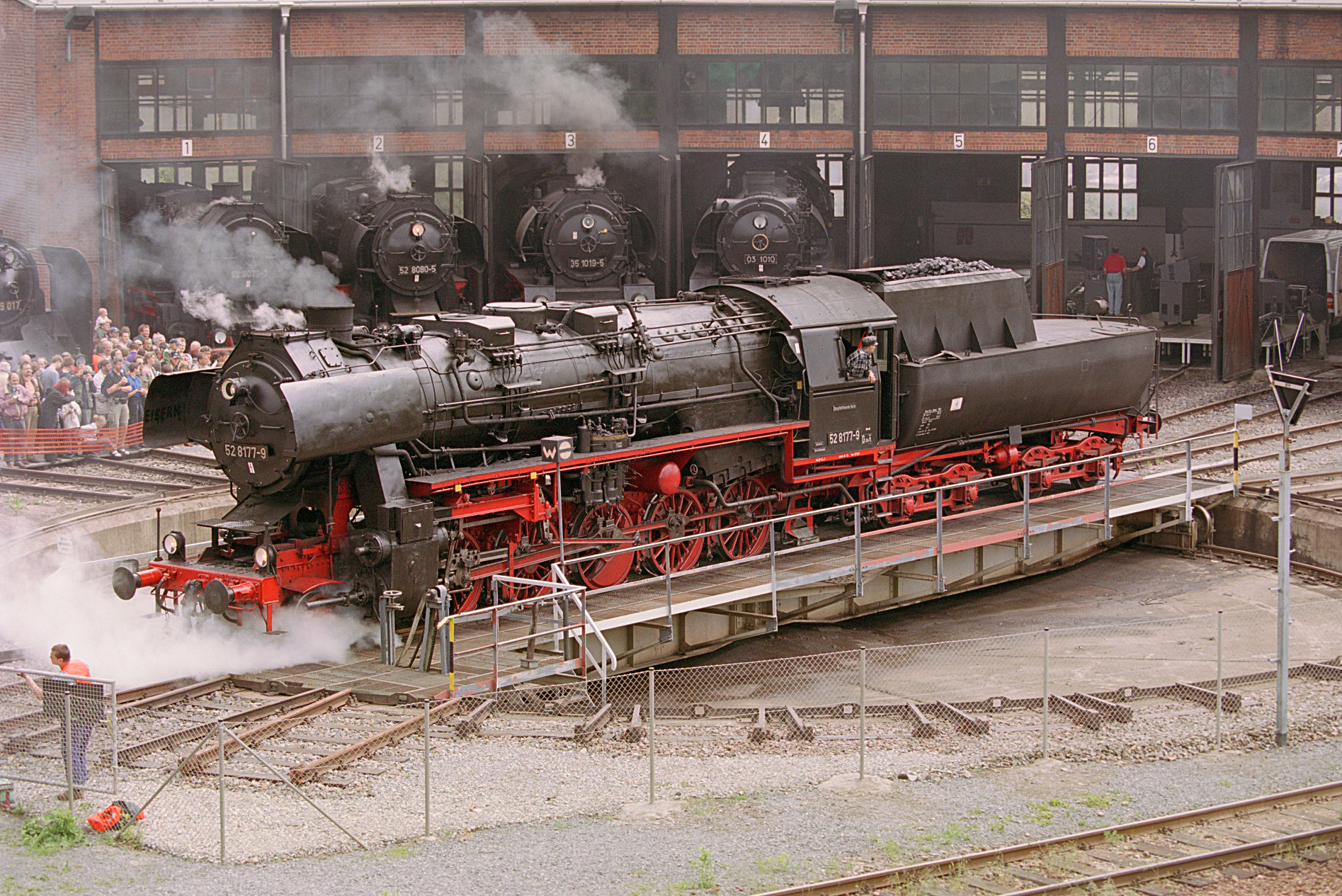 Steam Locomotive BR52-8177-9.